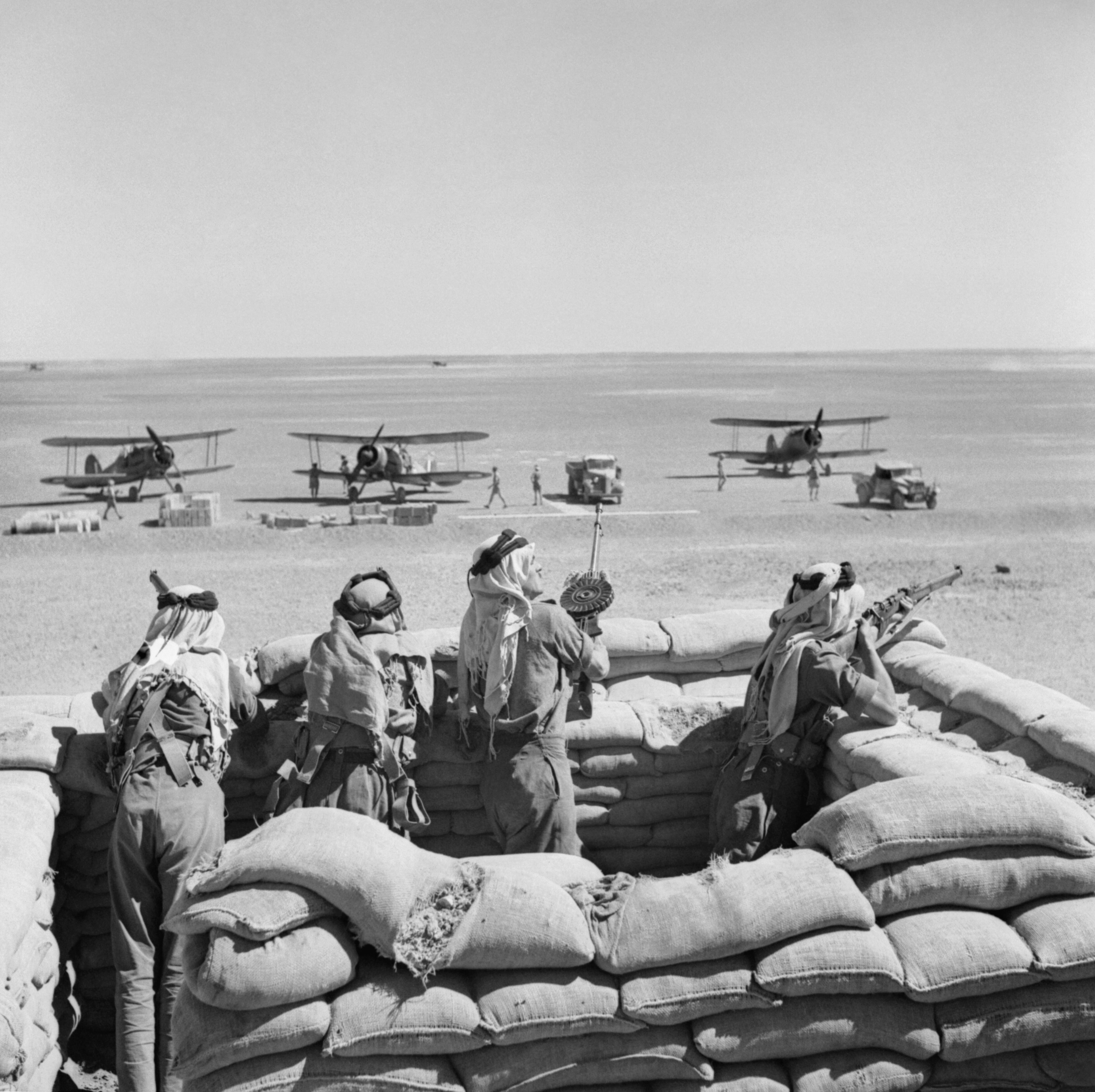 Royal Air Force Operations in the Middle East and North Africa, 1939-1943. Arb Legionnaires guard the landing ground at H4 pumping station on the Iraq Petroleum Company pipeline in Transjordan, as Gloster Gladiators of No. 94 Squadron RAF Detachment refuel during their journey from Ismailia, Egypt, to reinforce the besieged garrison at Habbaniyah, Iraq. On arrival at Habbaniyah these aircraft formed No. 1 Flight of 'A' Squadron for operations against the Iraqi rebels.